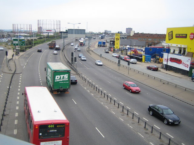 A406 North Circular Road This section of the A406 North Circular Road in Upper Edmonton is glorified by its name of Angel Road. Quite how long an angel would last here is anyone's guess! The road here swings round to the right to pass over the railway line next to Angel Road station.